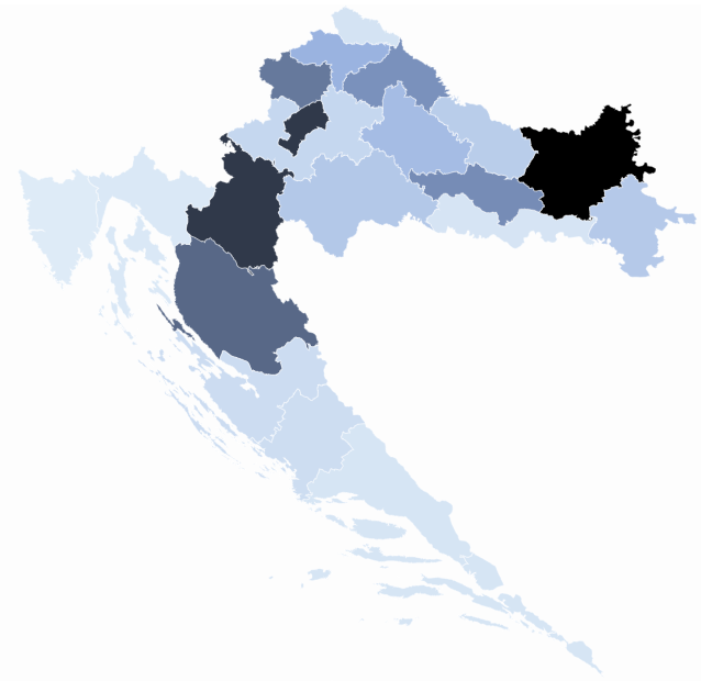 Death cases in Croatia caused by COVID-19